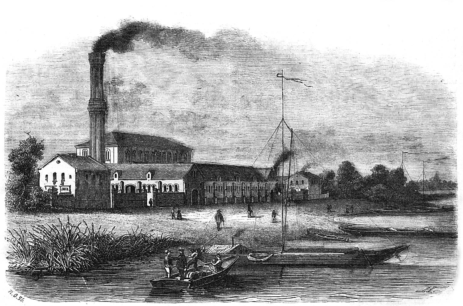 caption: "Die Berliner Wasserwerke."